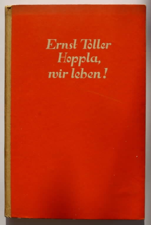 Book cover of Ernst Toller's play "Hoppla, wir leben!" (Hoppla, We're Alive!), original edition Gustav Kiepenheuer Publishers, Potsdam 1927